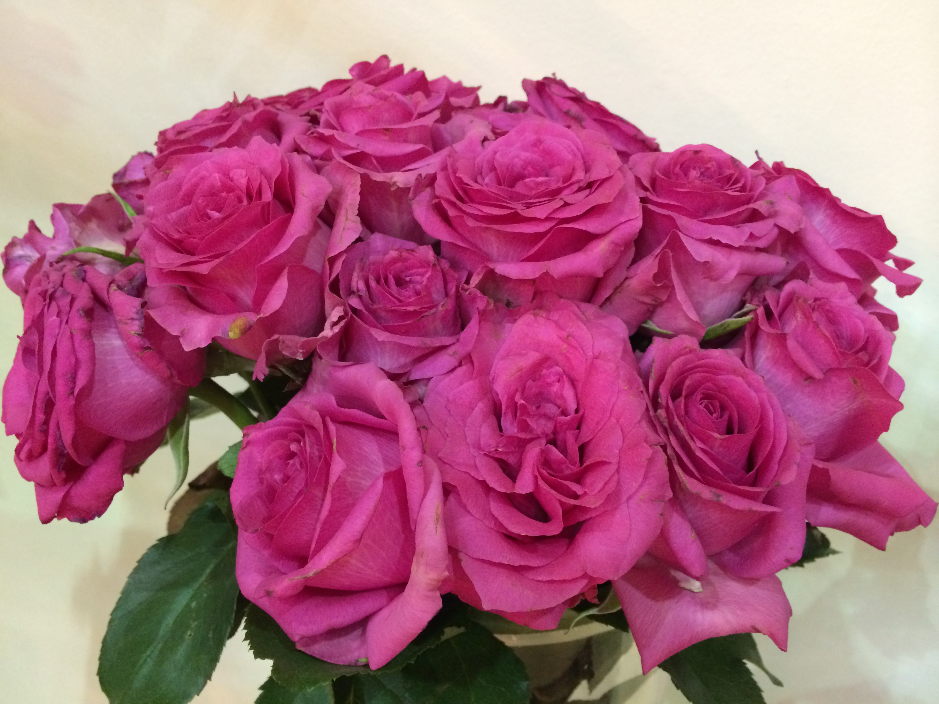 Pink Rose